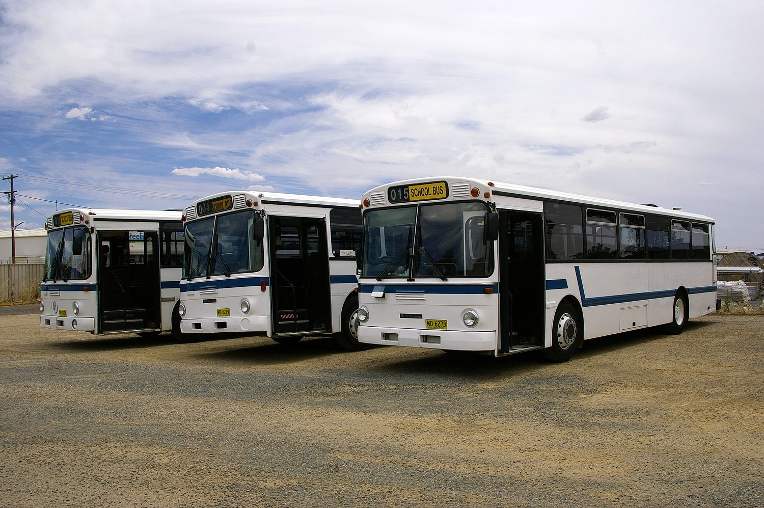 Ansair bodied Mercedes-Benz O305 (MO 6228, MO 6229 and MO 6273) currently owned by Fearnes Coaches/Busabout Wagga Wagga are former ACTION buses which were used in Canberra.